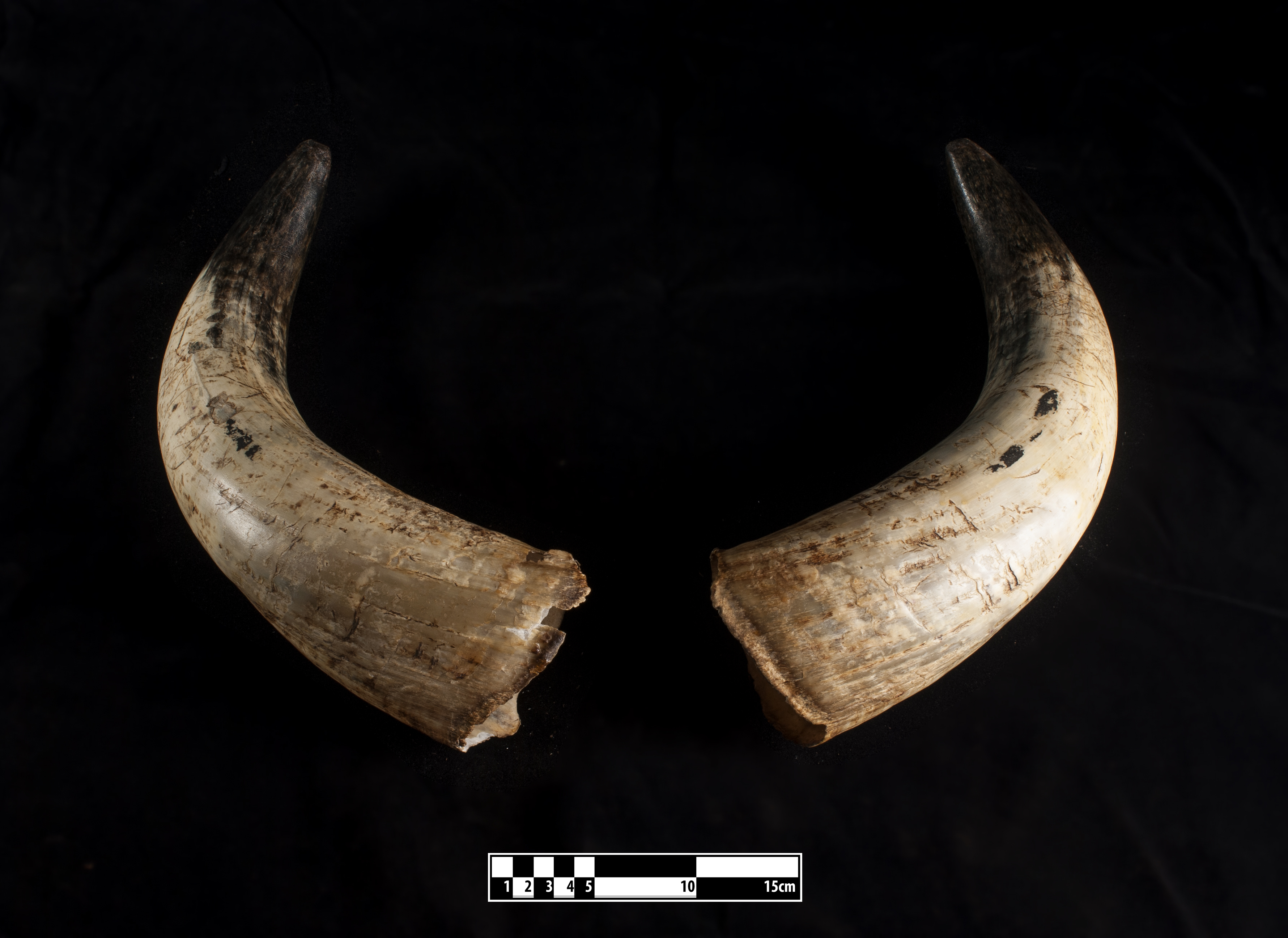 Water buffalo horn (Bubalus bubalis). Specimen of water buffalo horns prepared by the bone maceration technique and on display at the Museum of Veterinary Anatomy FMVZ USP. This file was published as the result of a partnership between the Museum of Veterinary Anatomy FMVZ USP, the RIDC NeuroMat and the Wikimedia Community User Group Brasil. This GLAM project is reported. Photography: Museum of Veterinary Anatomy FMVZ USP. Author: Wagner Souza e Silva.